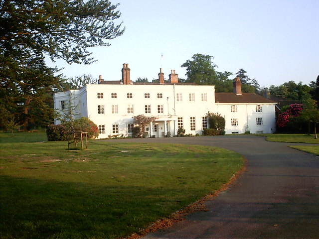 Foxlease House A fine Georgian house set in 65 acres just outside Lyndhurst in the New Forest. It has been owned by Girlguiding UK since 1922 and is now run as a Training and Activities Centre